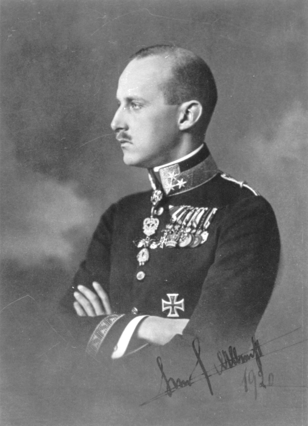 Archduke Karl Albrecht Nikolaus von Austria (1888-1951), colonel of Austria, general major of Poland (Polish name Karol Olbracht Habsburg-Lotaryński)